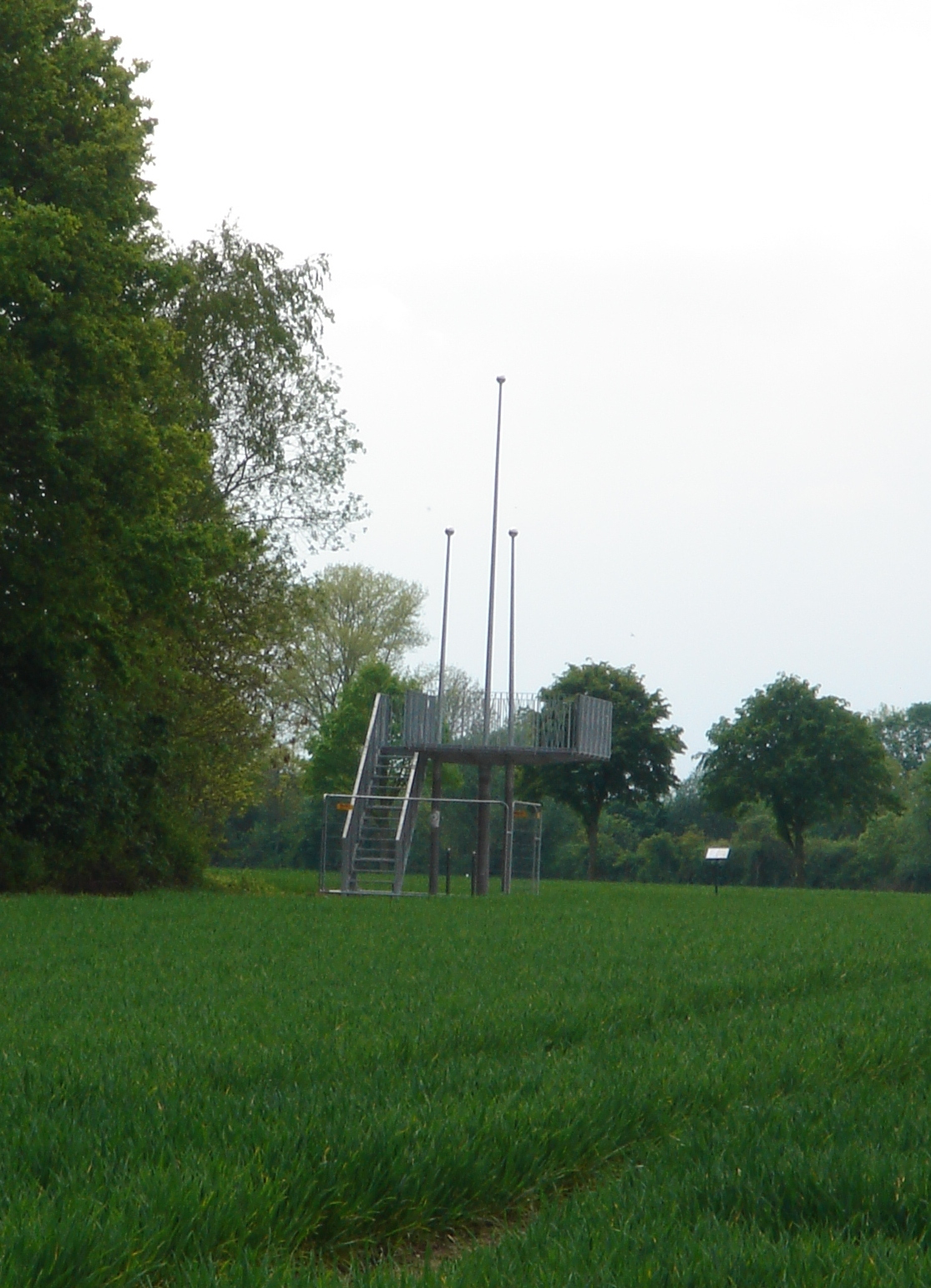 Landschaftspark Belvedere - Aussichtsplattform 2